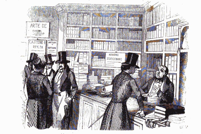 Illustration of a bookstore, from Los Españoles pintados por sí mismos.